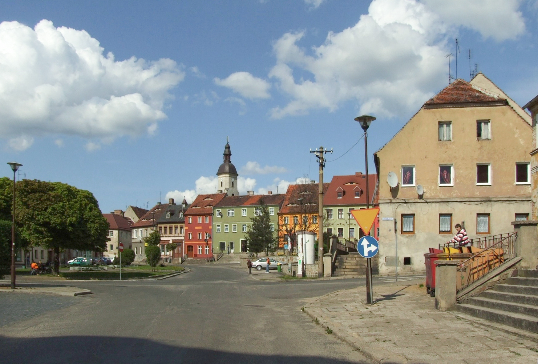 The city centre of Zawidów in the south-west Poland